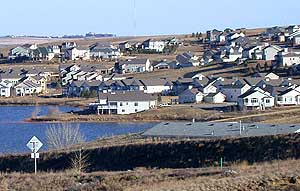 New residential construction in western Windsor, Colorado (Larimer County portion)